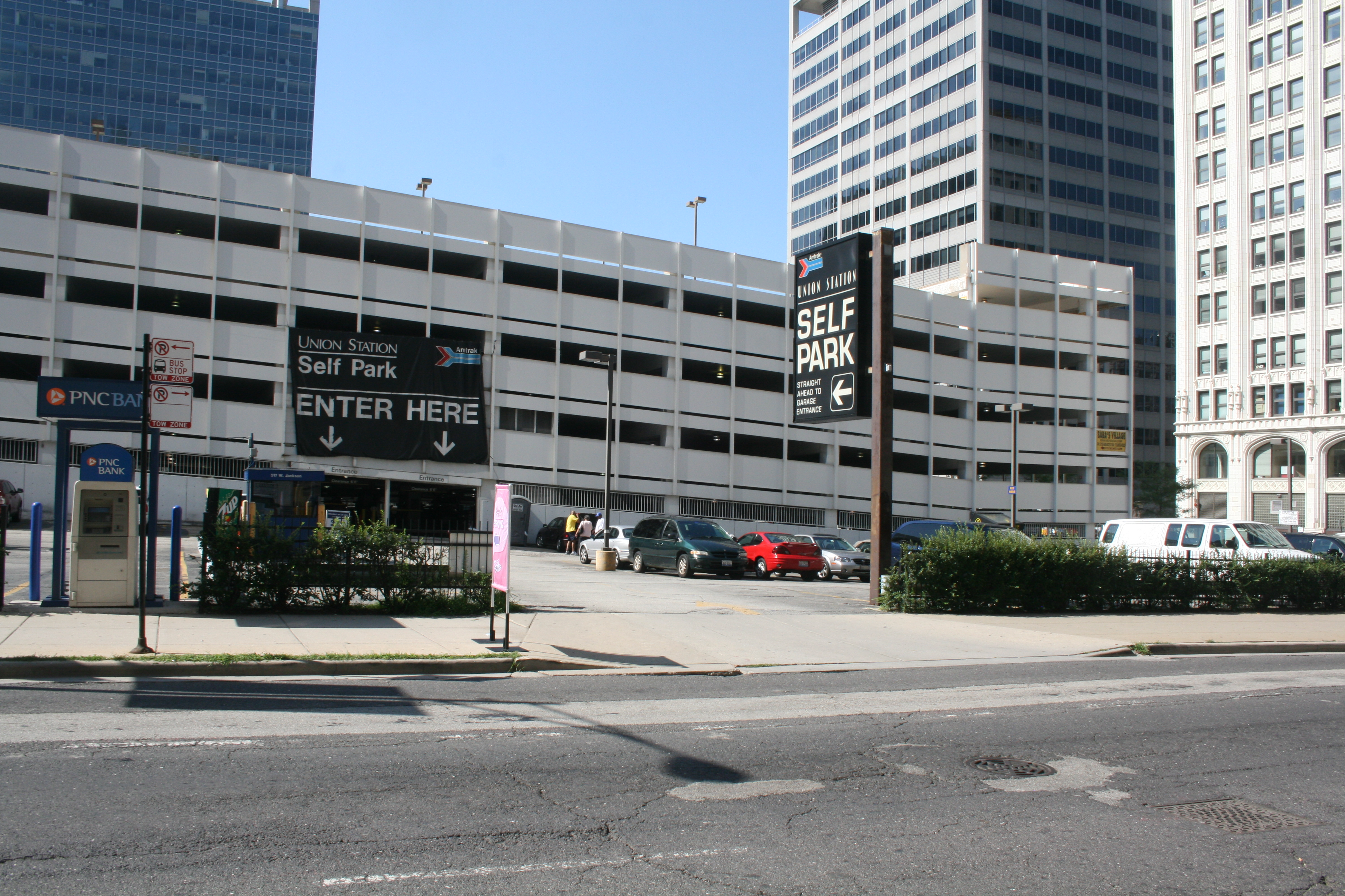 Shame that Amtrak owns such a beautiful headhouse, and has such an ugly parking garage across the street. They should seek to develop the land.